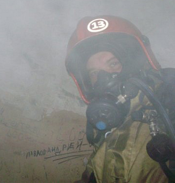 Russian Firefighters